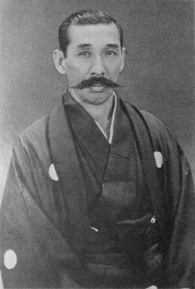 Photograph of Nakayama Hakudō